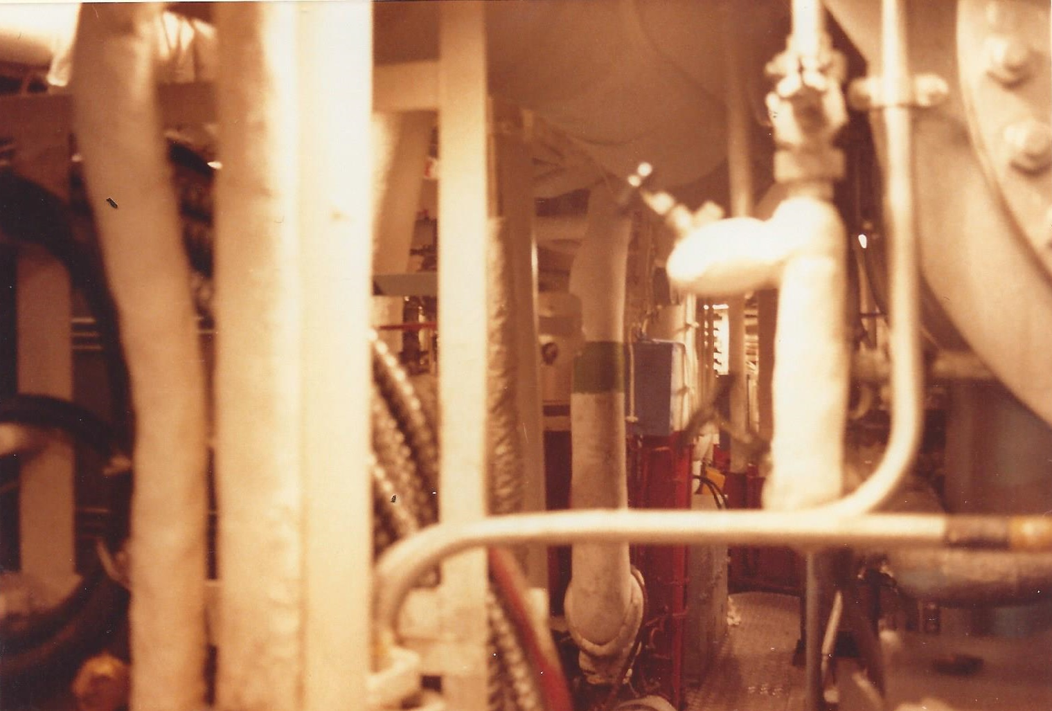 Boiler system of the German destroyer “Mölders” (D 186).